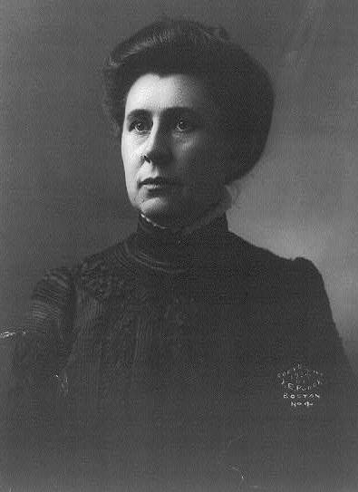 Ida M. Tarbell, American "muckraker" author.